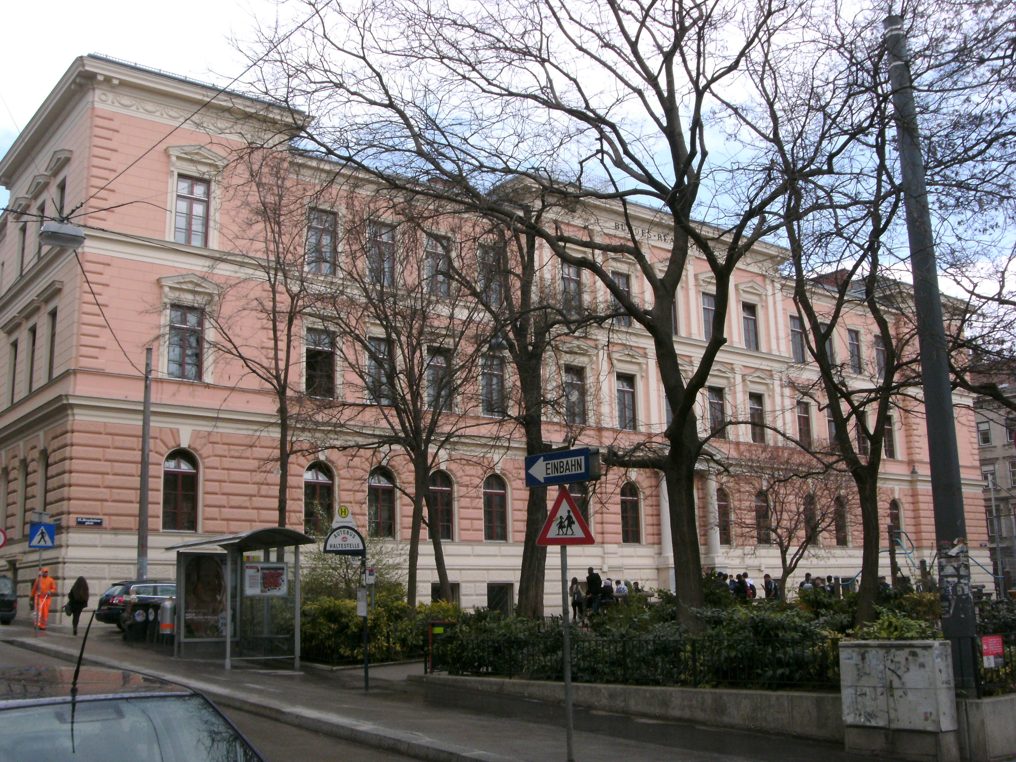 Bundesrealgymnasium (Federal grammar school) at Henriettenplatz, Vienna's 15th district